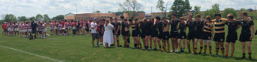 Awards Presentation: Avon v. Fishers, 2016 D1 Boys Varsity State Final